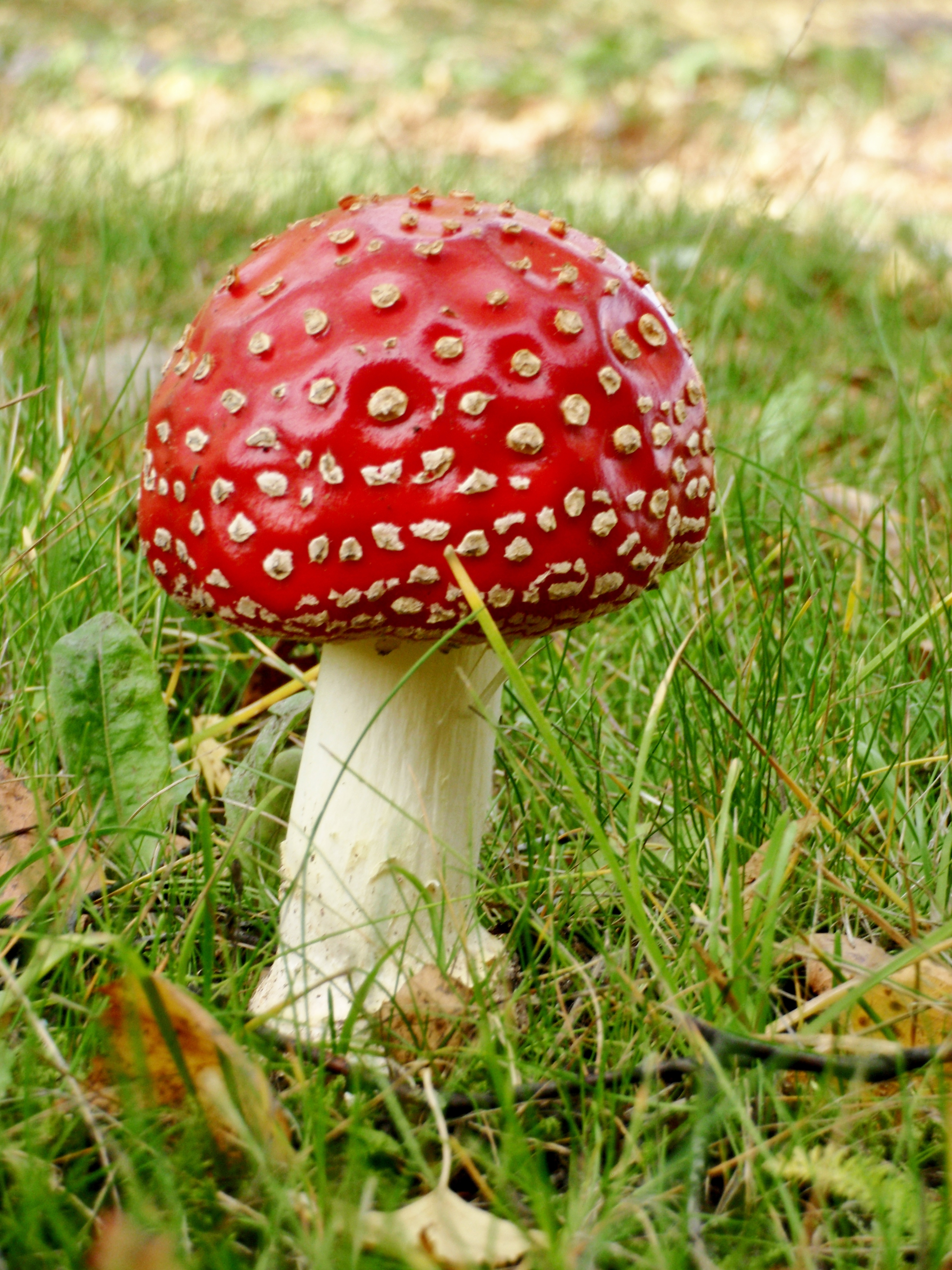 Amanita muscaria